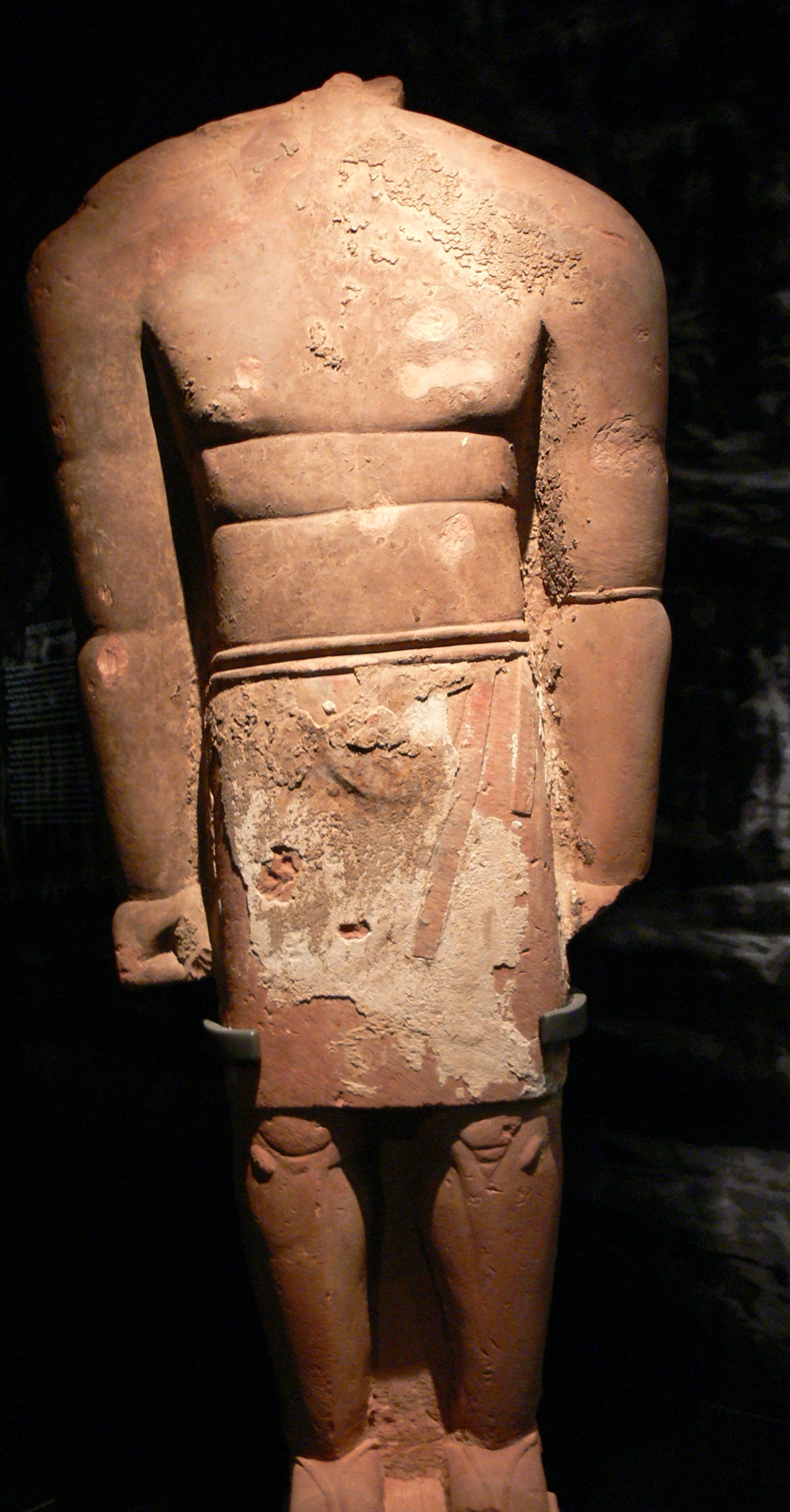 Pergamon Museum ( Berlin ). Exhibition "Roads of Arabia": Colossal statue ( 4th/3rd century BC ), red sandstone, 230x30x83 cm, from Al-'Ula ( Department of Archaeology Museum, King Saud University, Riyadh ).